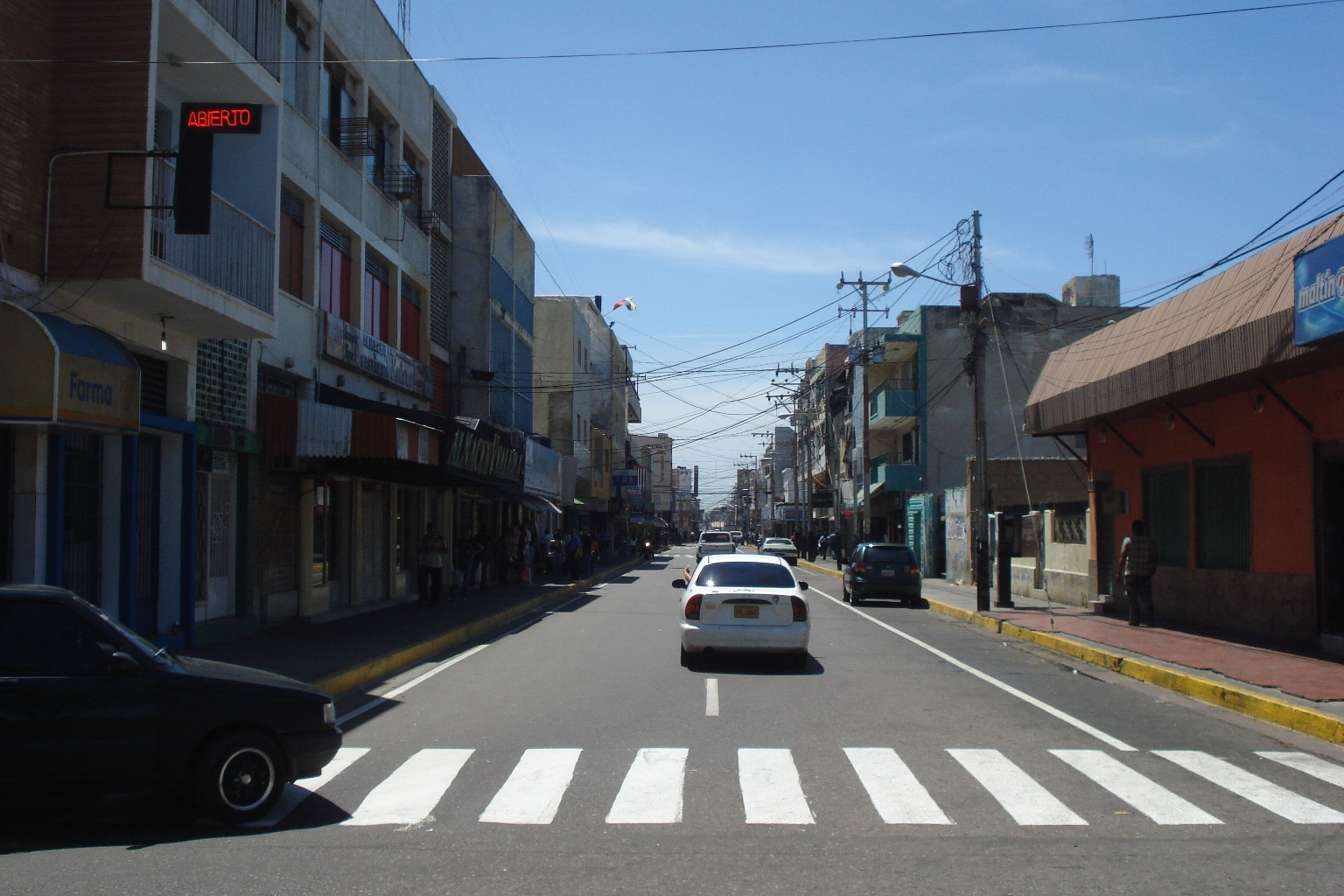 Colombia St. in Punto Fijo downtown, Venezuela.